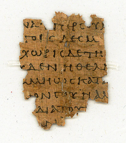 Papyrus 87 (Gregory-Aland), recto. The earliest known fragment of the Epistle to Philemon, believed to date to the late 2nd or early 3rd century.